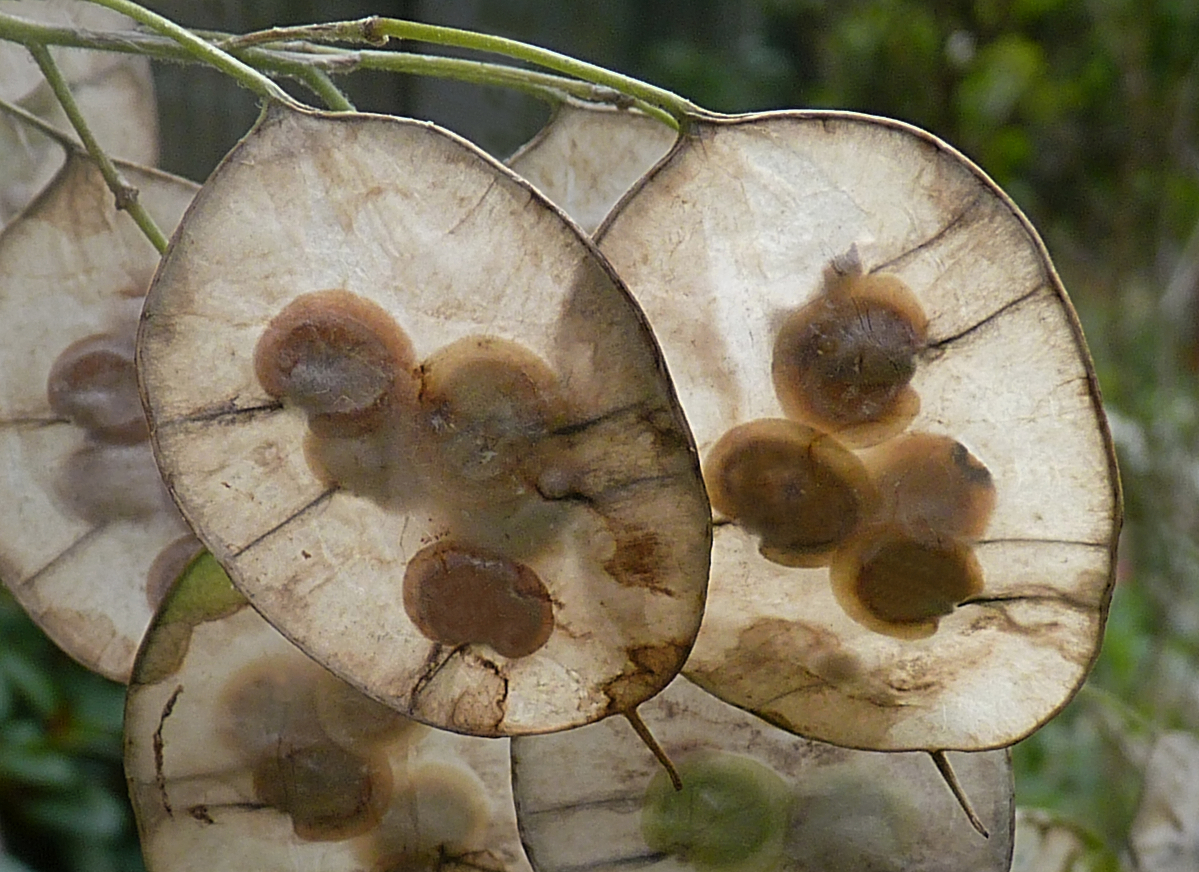 Lunaria annua, seeds in july. Picture taken in a garden in Belgium.